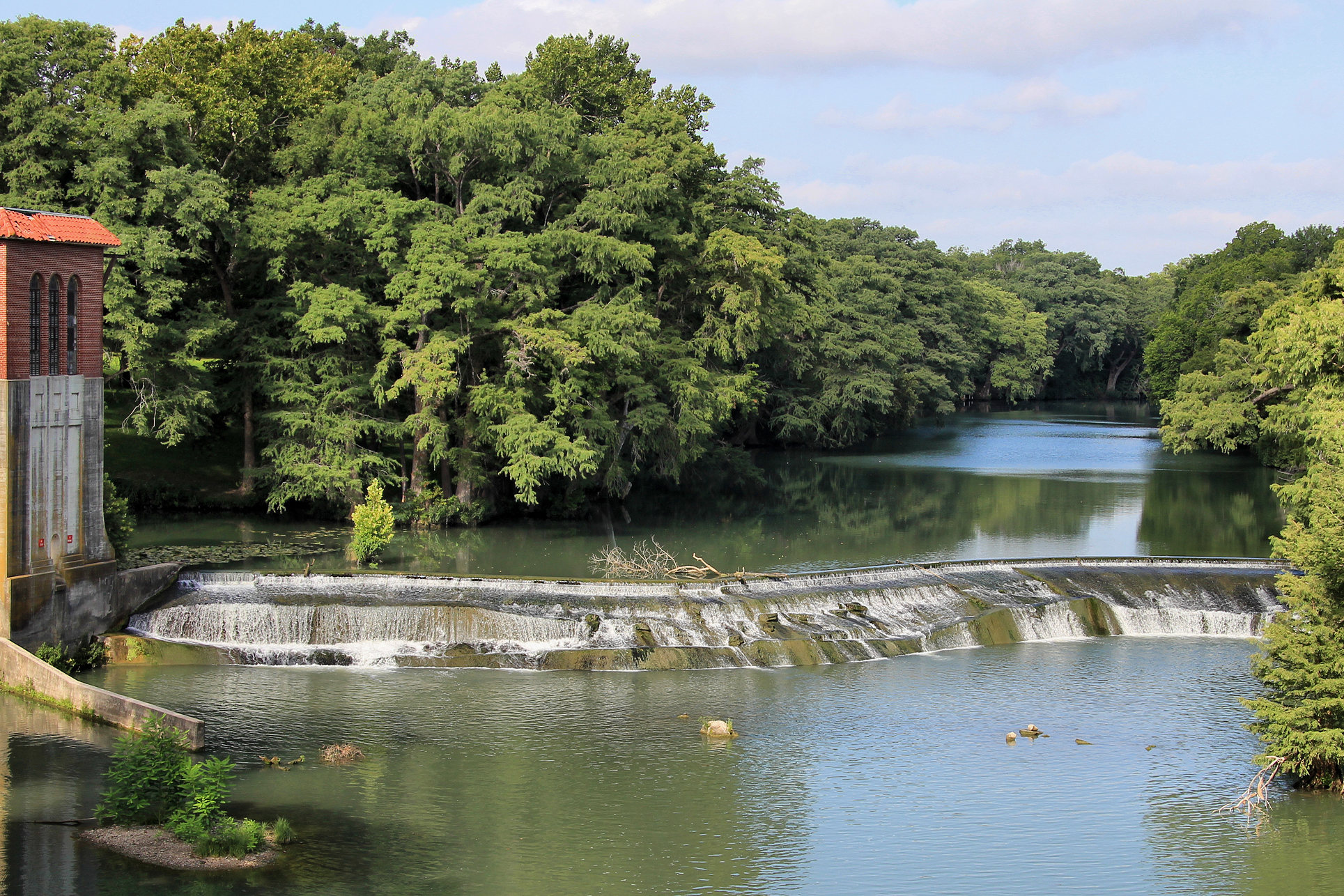 Saffold Dam located in Seguin, Texas, United States. The structure was listed on the National Register of Historic Places on November 15, 1979.